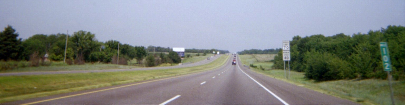 Interstate 35 at milemarker 102 (just north of the Ladd Road exit) in Goldsby, Oklahoma. Image taken by user and uploaded 15 September 2005.